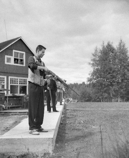 Photograph of the Canadian shooter George Genereux (1935–1989) at Helsinki Olympic games.